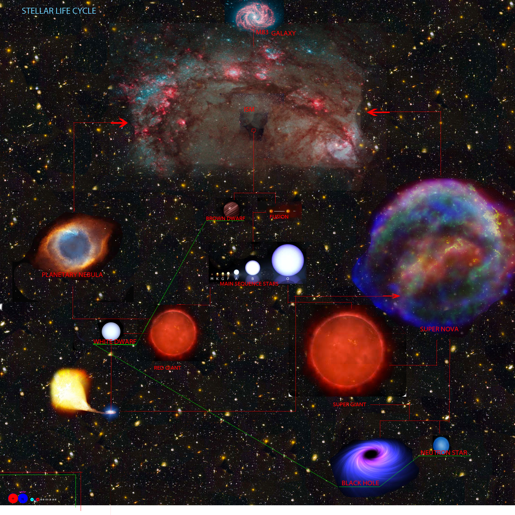 Stellar Life Cycle. The center of the nebula represents a dark molecular cloud. Background-Hubble Deep Field. Red-Cycle. Green-Locked Material w/o Special Circumstance.